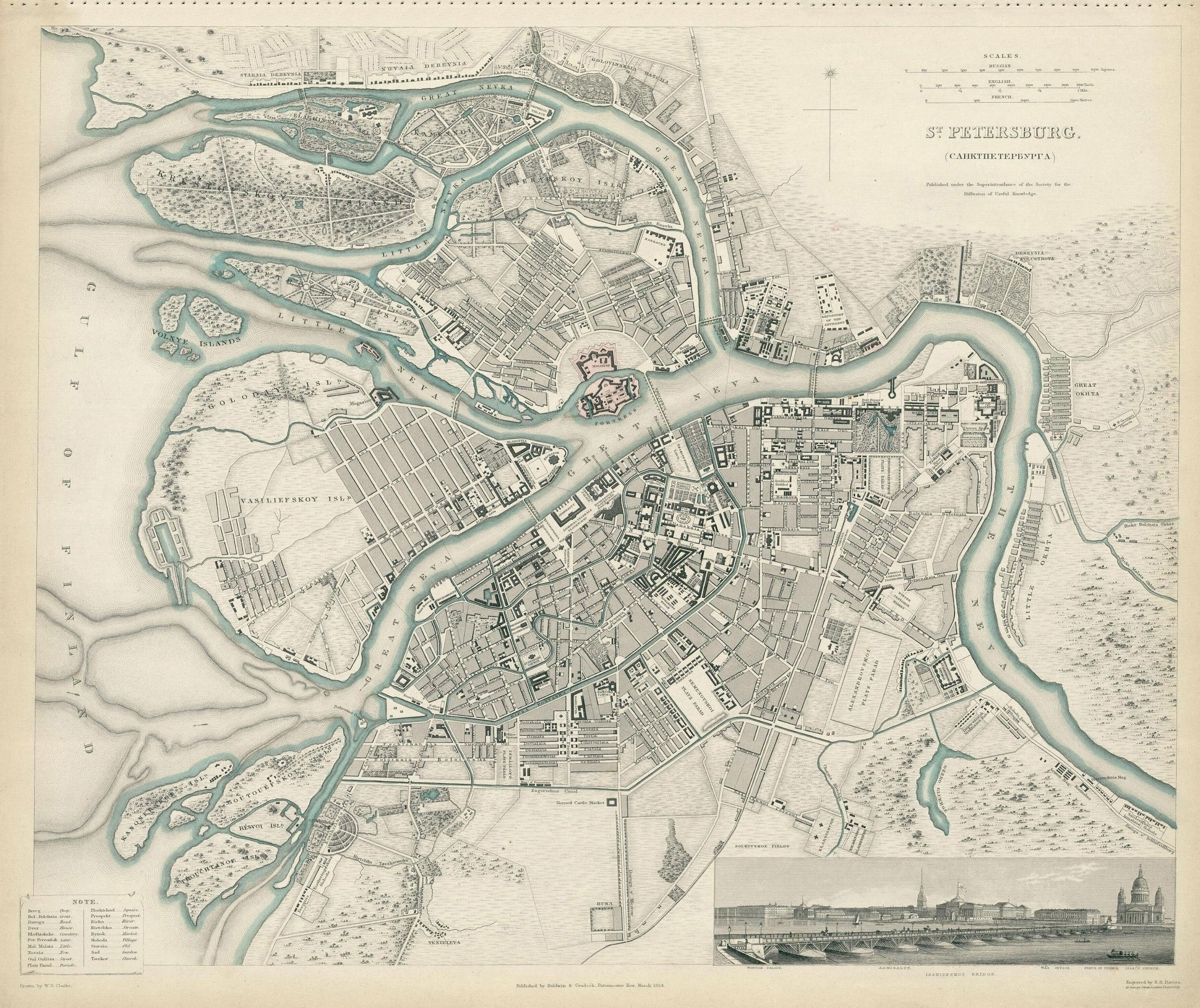 English map of St. Petersburg by the Society for the Diffusion of Useful Knowledge (SDUK). London, 1834